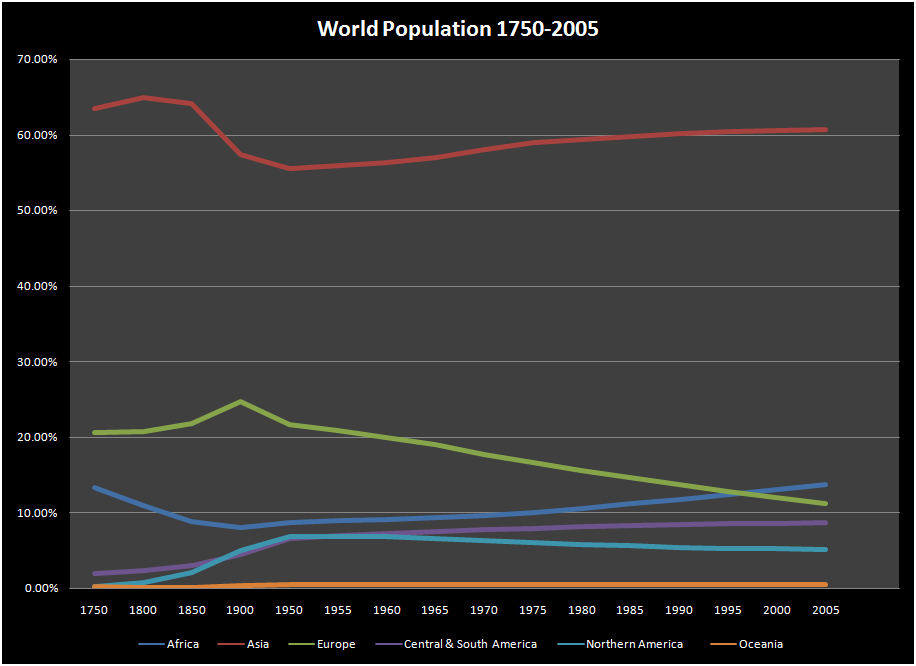 Created by Marcelo Garza from Data on Wikipedia's "World Population" article.